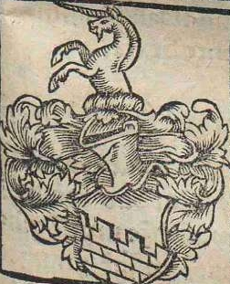 1 = Coat of arms of the Lords of Horky.